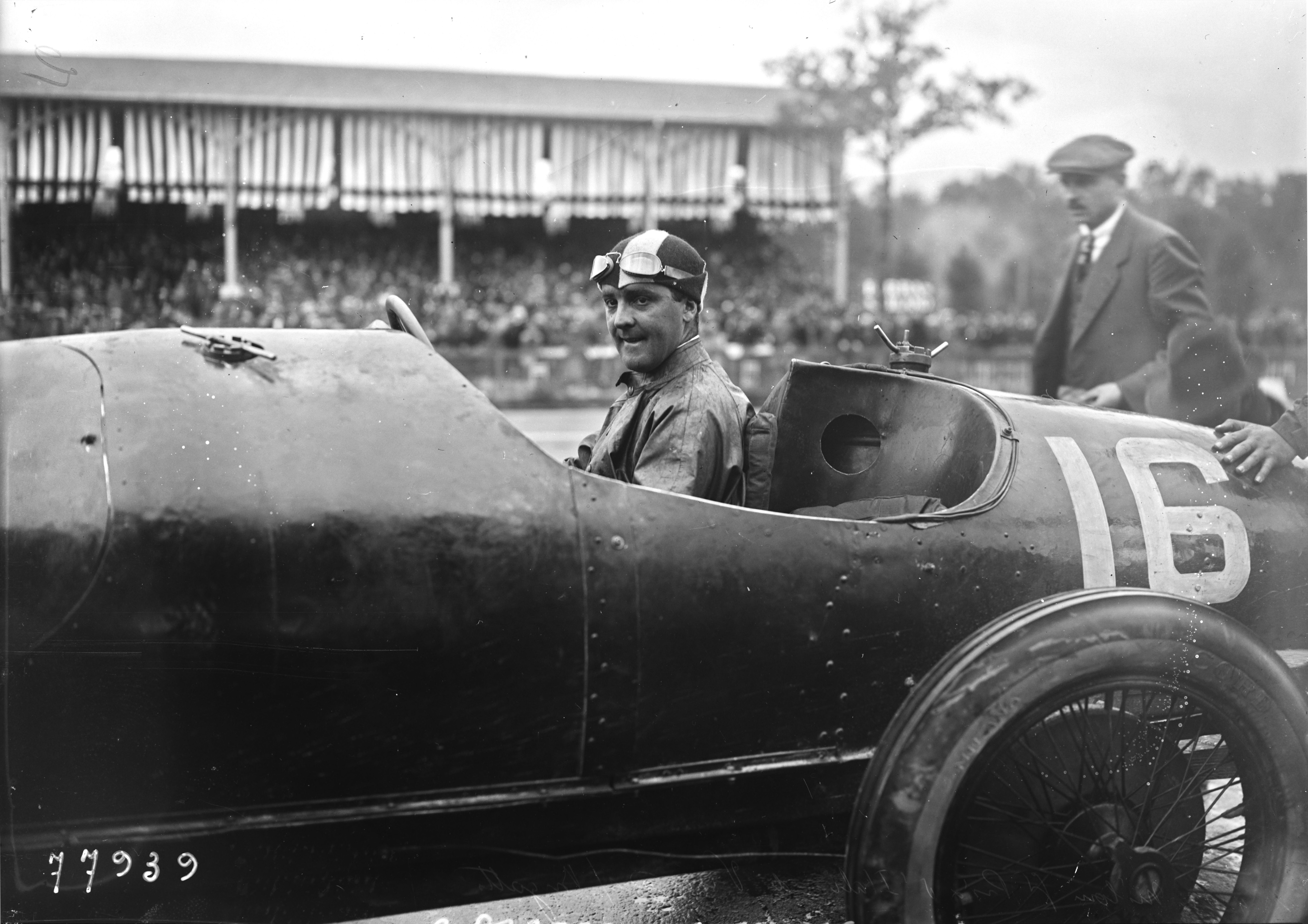 Pierre de Vizcaya at the 1922 Italian Grand Prix